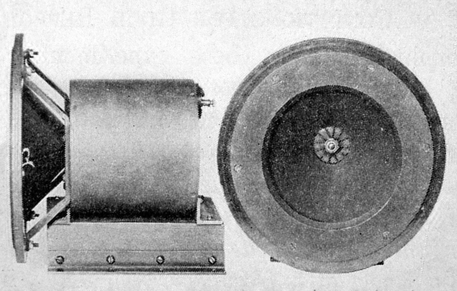 One of the first moving coil cone loudspeakers, developed by Chester W. Rice and Edward W. Kellogg at General Electric Laboratory in Schenectady, New York in 1925. It is the prototype for almost all modern loudspeakers. This may have been a commercial version sold with the RCA Radiola receiver. It consists of a paper cone attached at the rim to the baffle plate with a very flexible compliant coupling, attached to a light coil of wire (voice coil) in the field of an electromagnet.